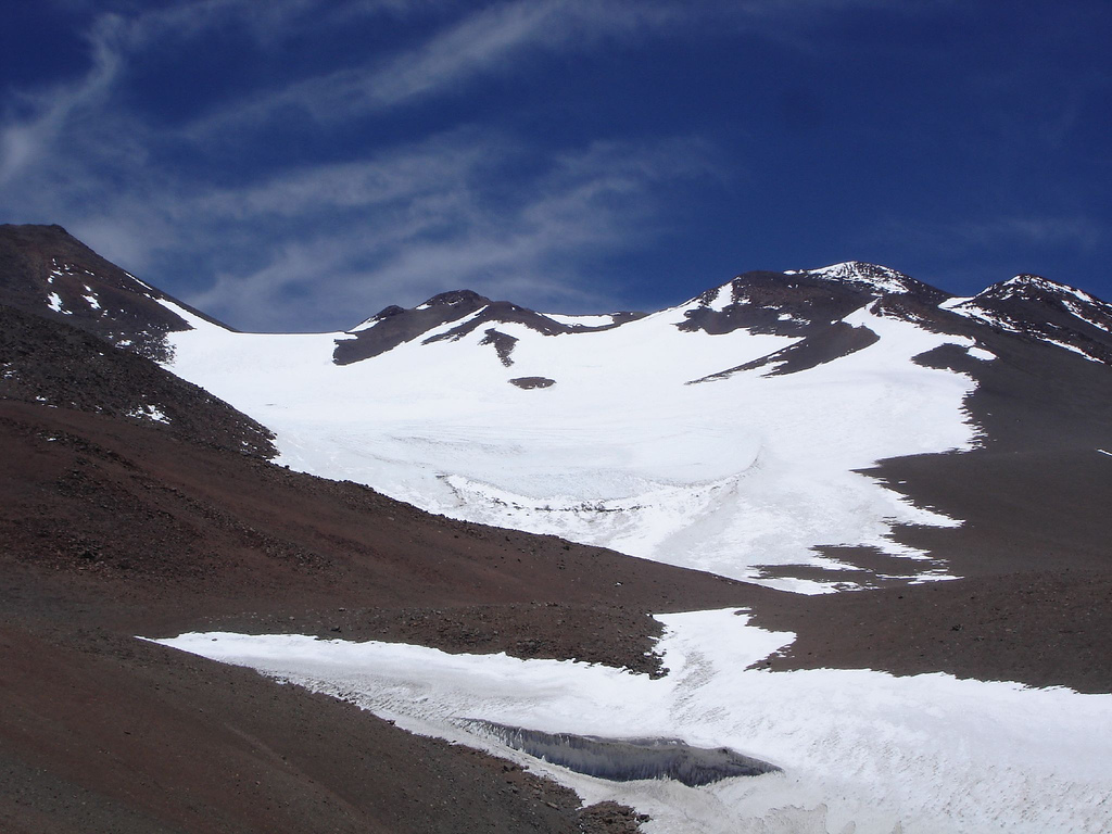 Mount Pissis from high camp (5,900m)